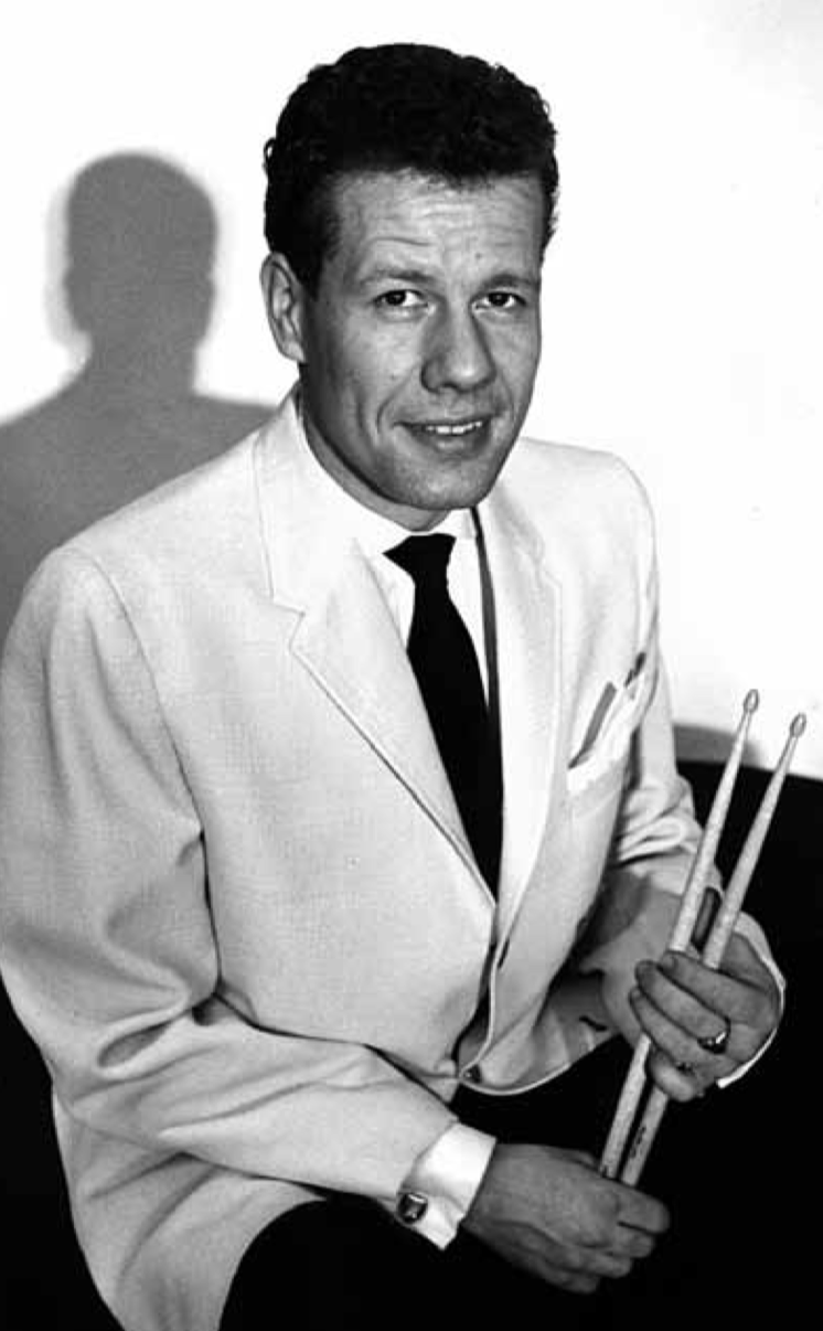 Finnish jazz and session drummer, 1931–1989